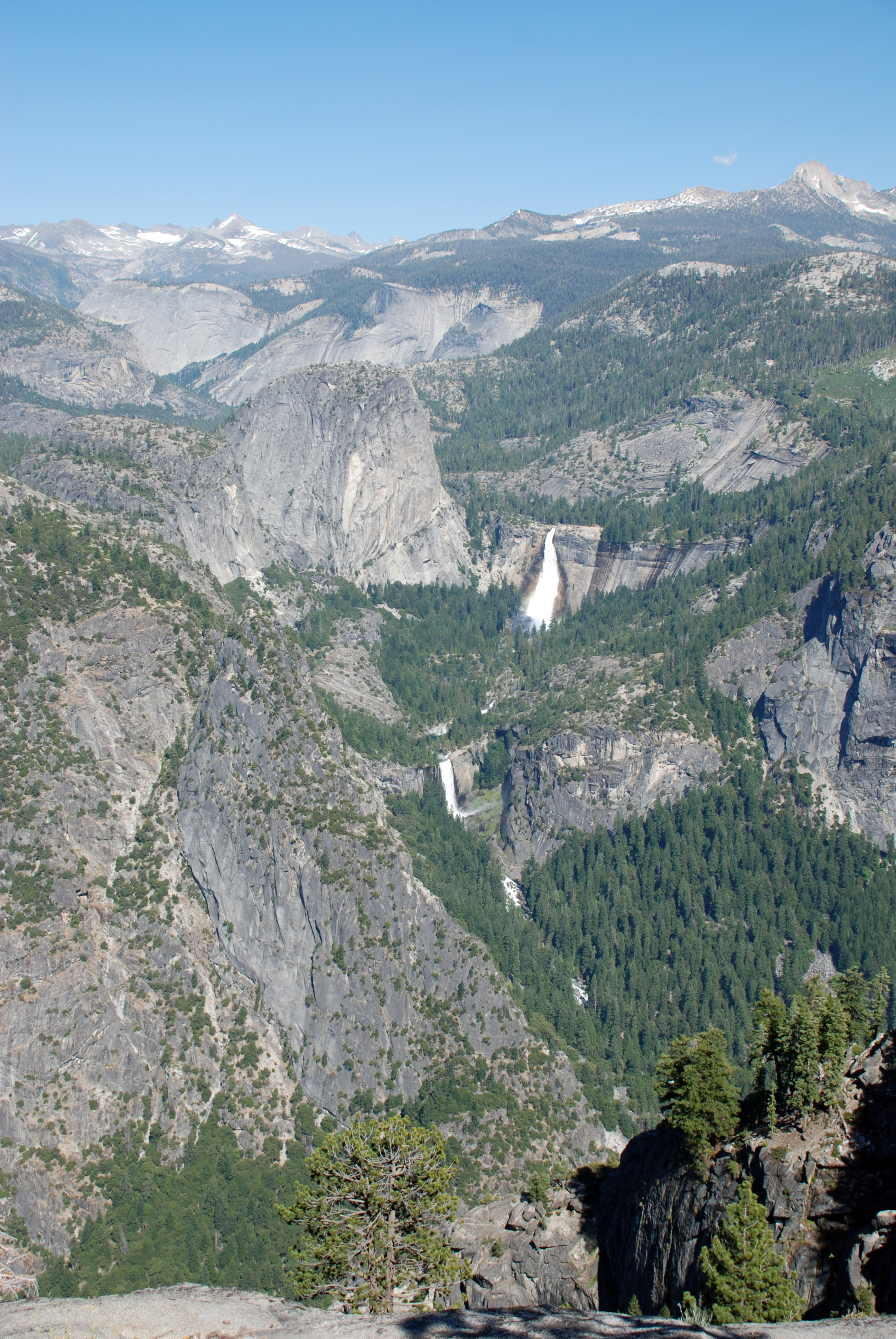 Nevada and Vernal Falls from Glacier Point, Yosemite National Park, California, USA